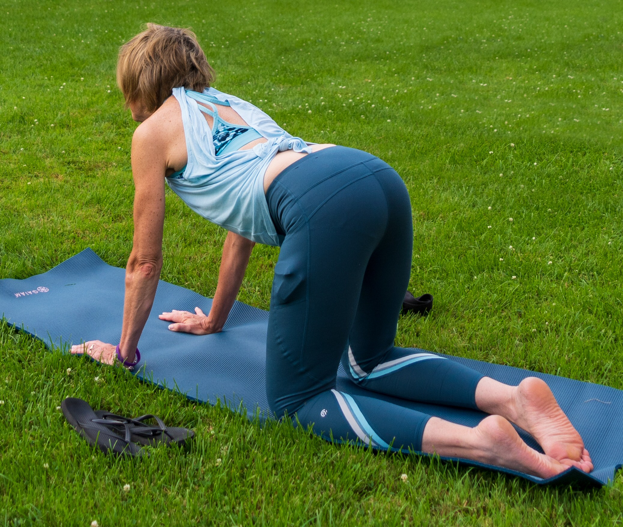 A yoga event on a lawn. "Yoga at Your Park" program at Declaration Park during Convention Days. Keywords: Declaration Park; yoga